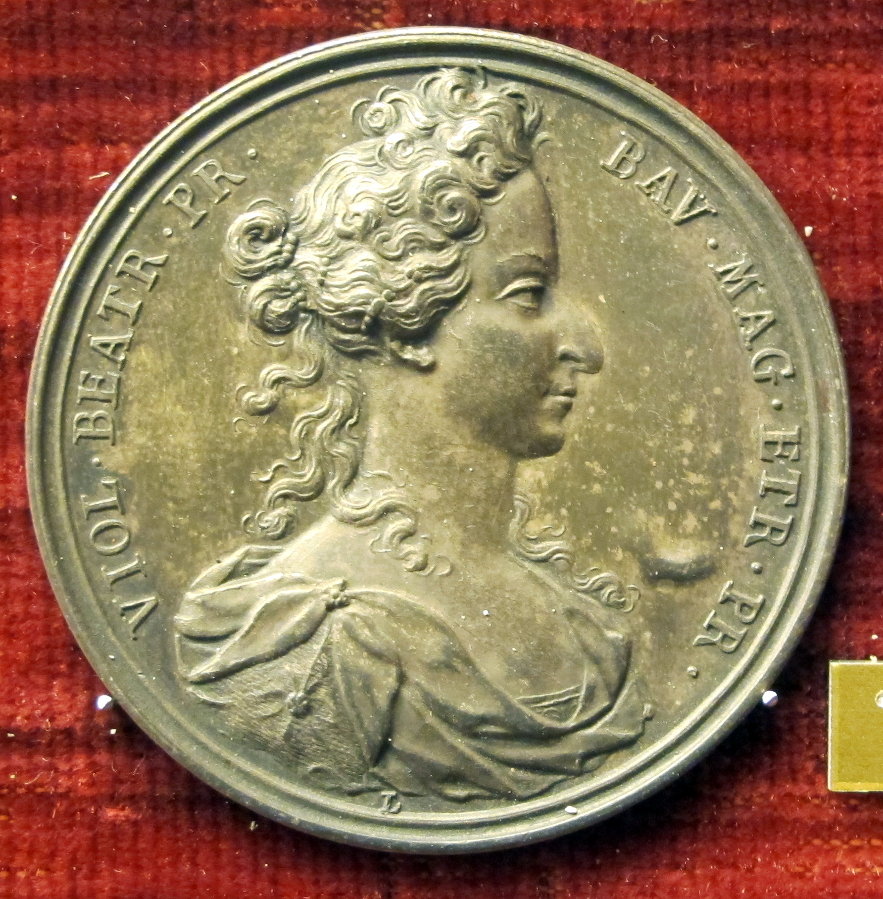 Rococo medal of Florence